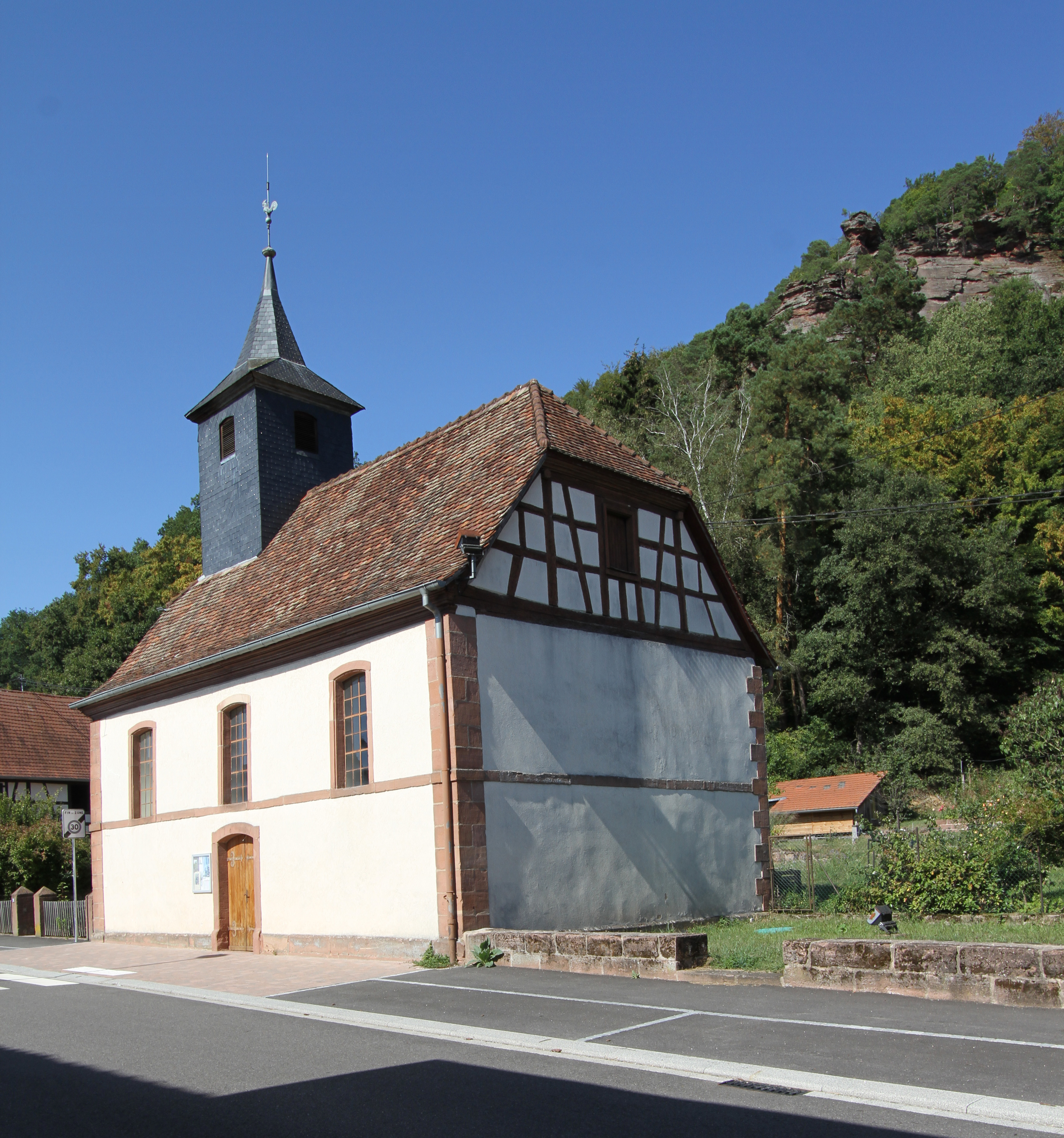 Protestant church in Obersteinbach.